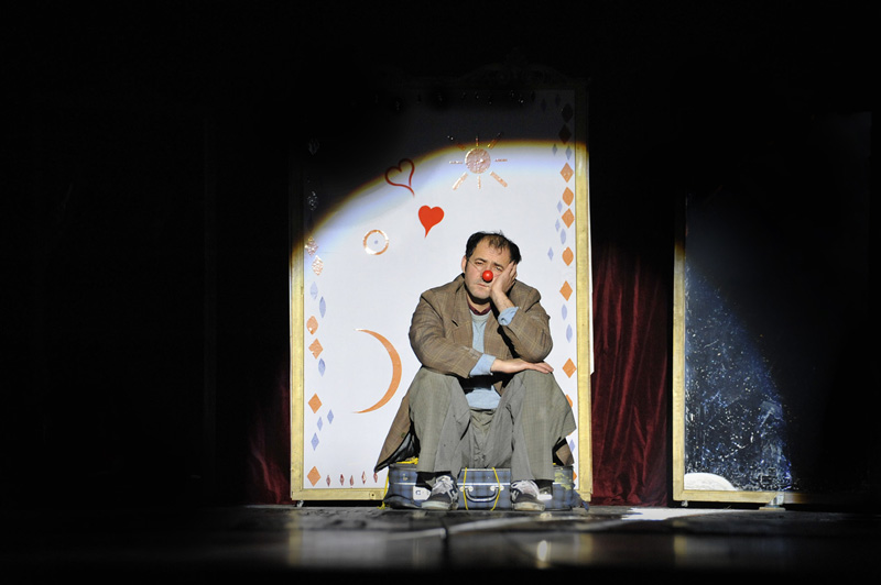 Shows of National Theater of Kosovo